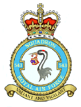 543 Squadron Crest